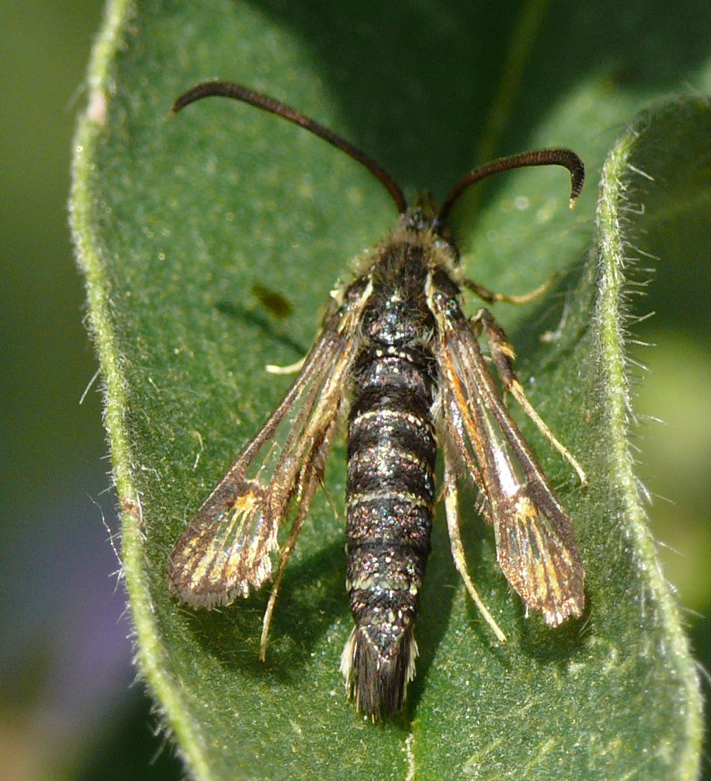 Six-belted Clearwing (Bembecia ichneumoniformis), Riemer Park, Munich, Germany